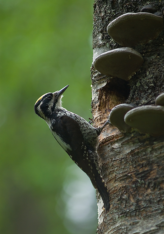 Three-Toed Woodpecker (Picoides tridactylus). Male. 13.6.2007, Tornio. Male has green/yellow in head. Quite fast feeder, once in 5 minutes.